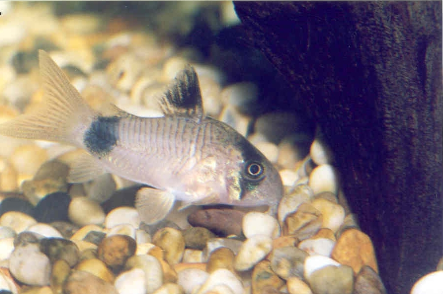 Author: User:Calilasseia Photograph of specimen of Corydoras panda from my own aquarium breeding stock. Scan of print originally shot on 35 mm print film in January 2003.